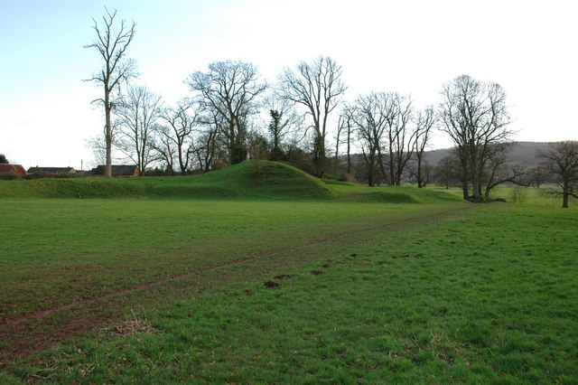 Site of Weobley Castle Only earthworks now remain of Weobley Castle, they suggest that at its prime it was a substantial castle.